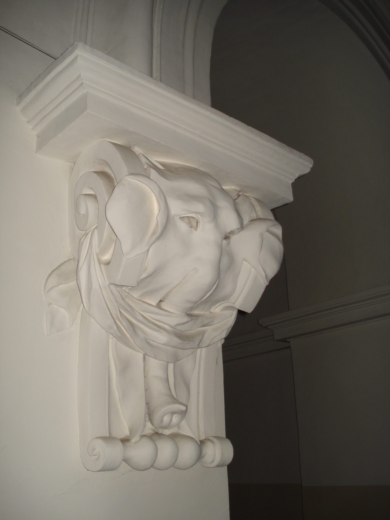 Elephant in the St. Augustine Chapel in the St. Peter and St. Paul's Church in Vilnius.